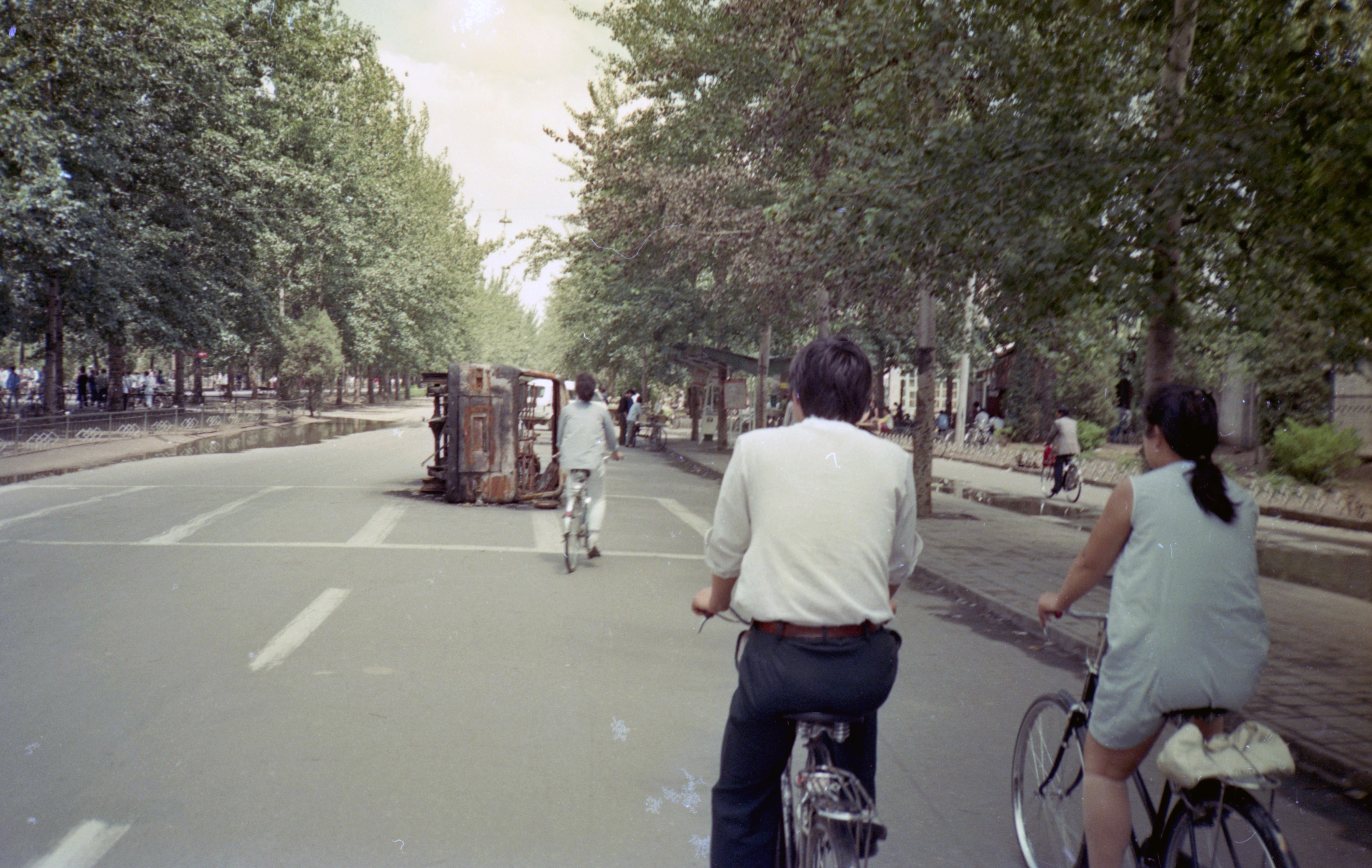 In the aftermath of june 89 events in Beijing, a burned car on Zhongguan cun street, picture taken between 7 to 11th of june